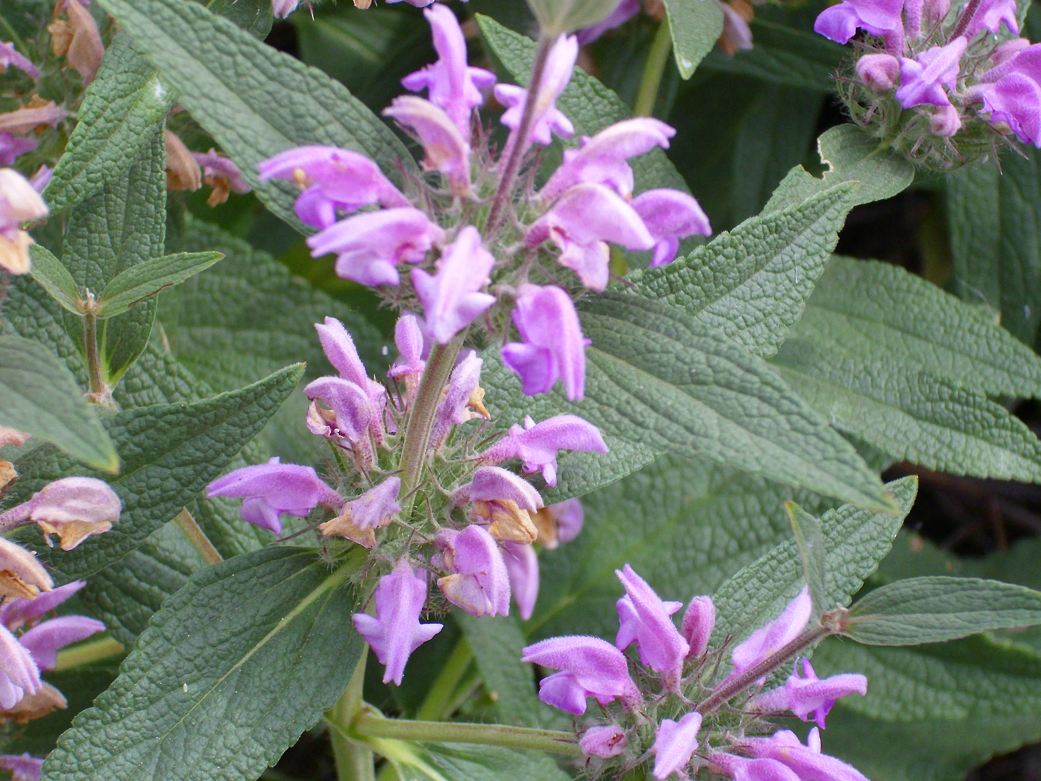 Phlomis purpurea flowers close up, Campo de Calatrava, Spain